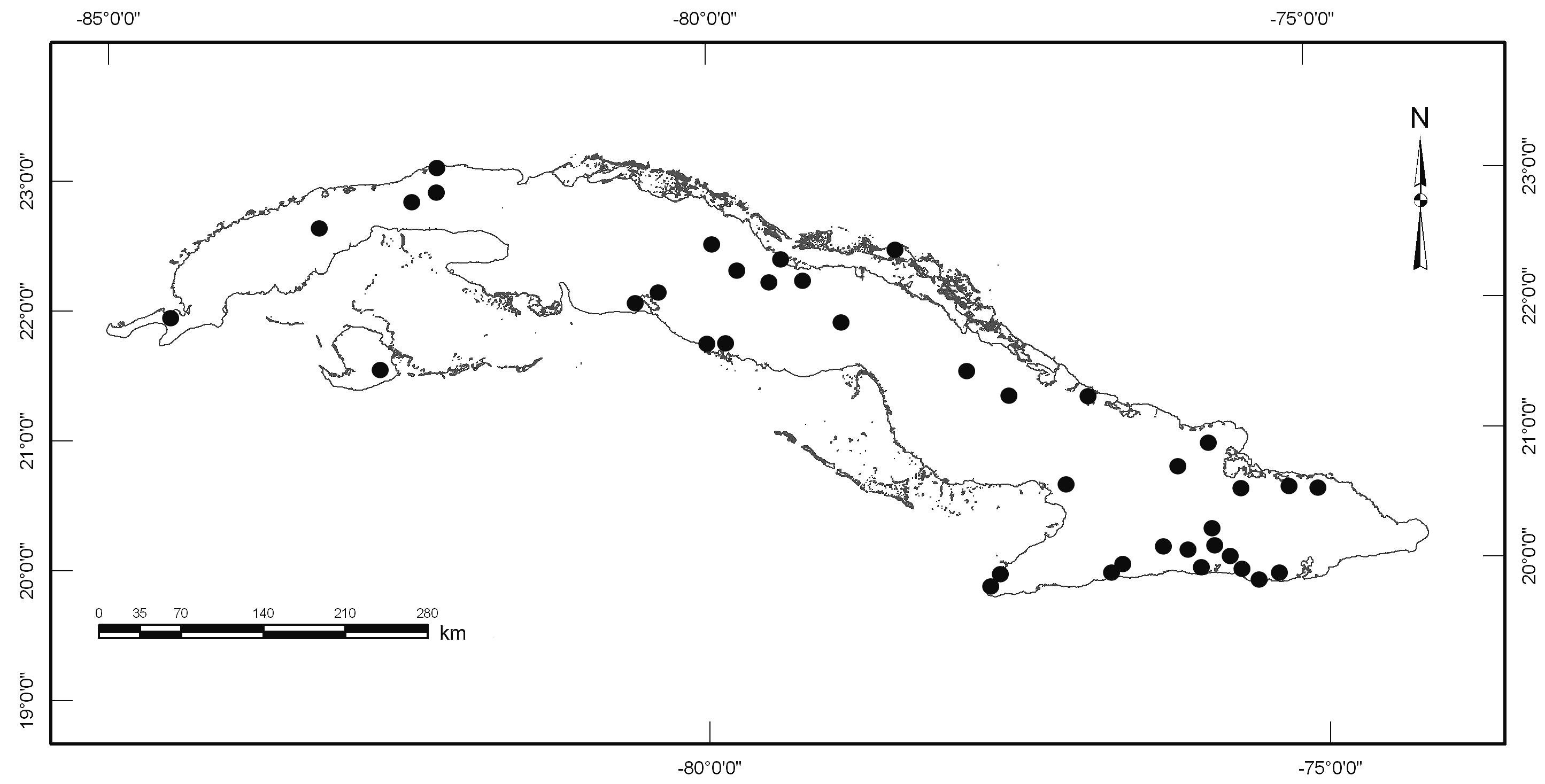 Distribution of Nops guanabacoae MacLeay (black circles)